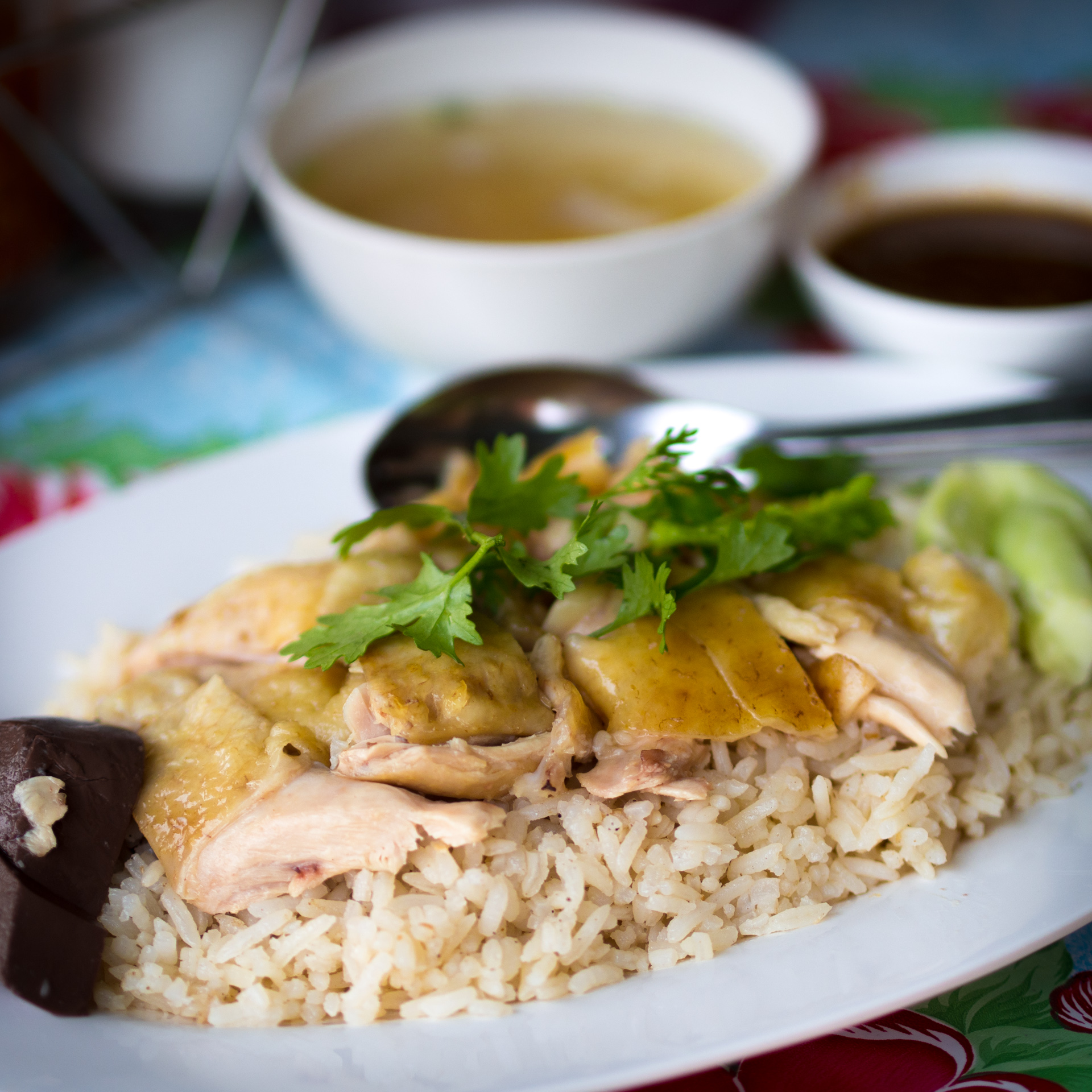 Khao man kai (Thai script: ข้าวมันไก่) is the Thai version of Hainanese chicken rice. It is rice boiled with garlic and oil in a light chicken broth, and which is served with slices of boiled chicken, a bowl of chicken broth, and, in the Thai version, a dipping sauce containing fermented yellow bean paste, chopped ginger, chopped Thai chilli peppers and thick soy sauce. A few pieces of curdled blood (black pudding) are also often included. Sometimes, if available, one can also ask to have chicken liver included.